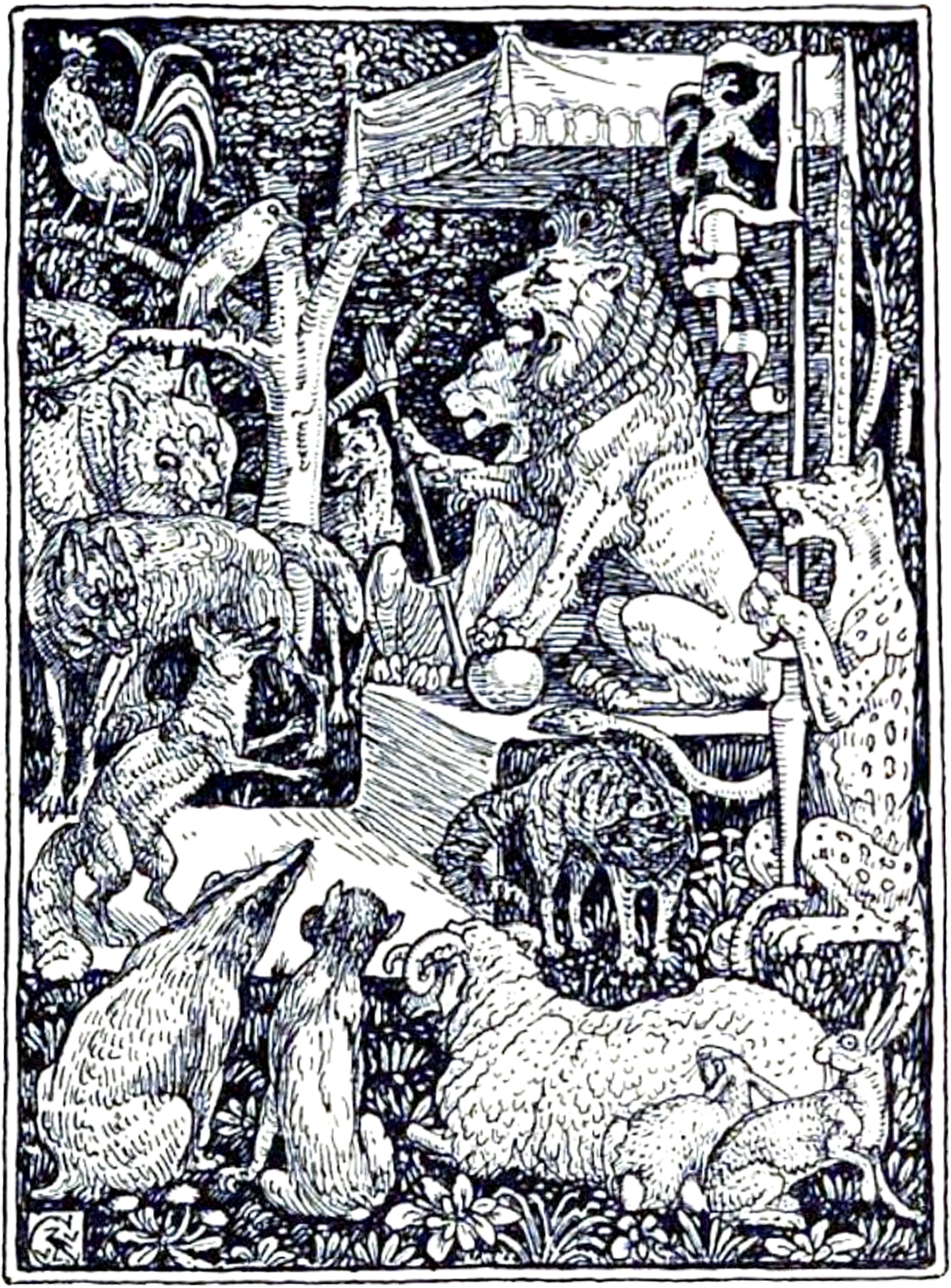 An illustration of King Noble, his court, and the beasts of the Reynard cycle. Bottom to top, left to right: Grimbard (the badger), Rukenaw (the ape), Bellin (the ram), Laprel (the rabbit), Kyward (the hare); Reynard (the fox), Thibert (the cat), Panther; Isengrim (the wolf), Fière (the lioness), Noble (the lion); Bruin (the bear), Curtise (the dog); Chanticleer (the rooster), ? (the ?).